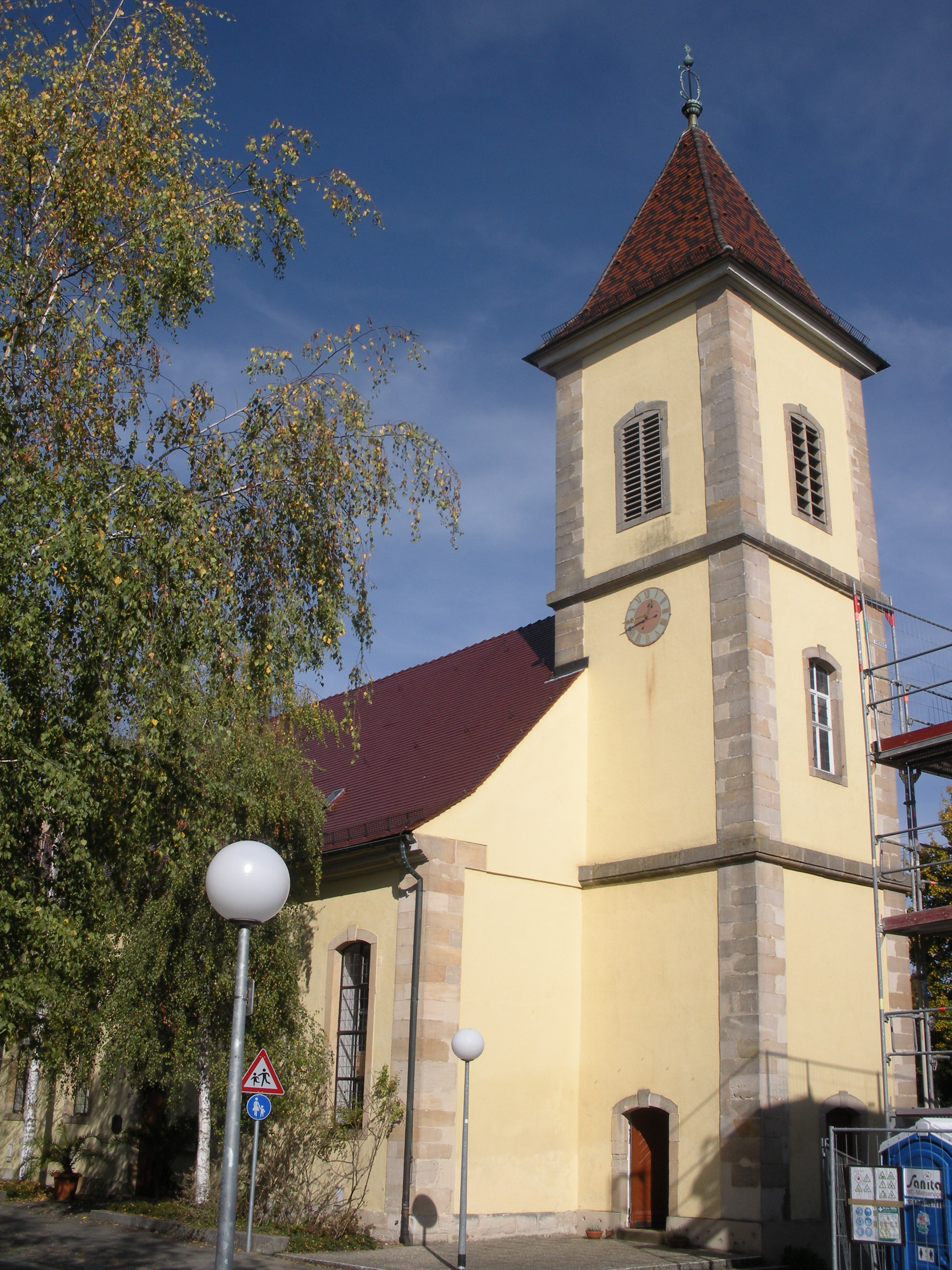 Protestant Franziska-Church in Stuttgart-Birkach